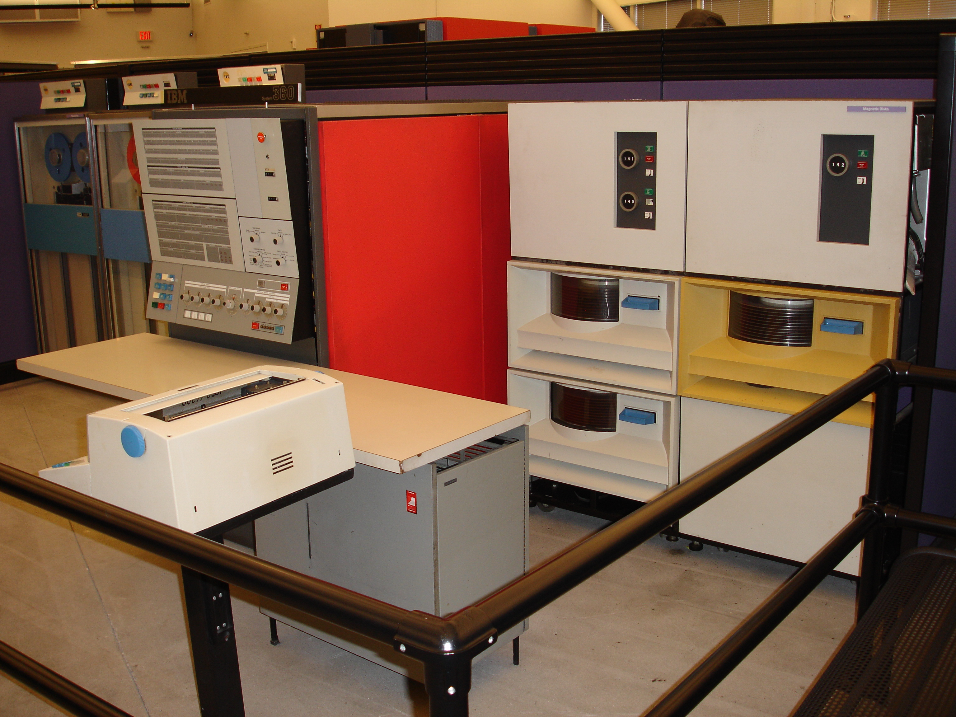 An entry-level IBM System/360 system, on display at the Computer History Museum.